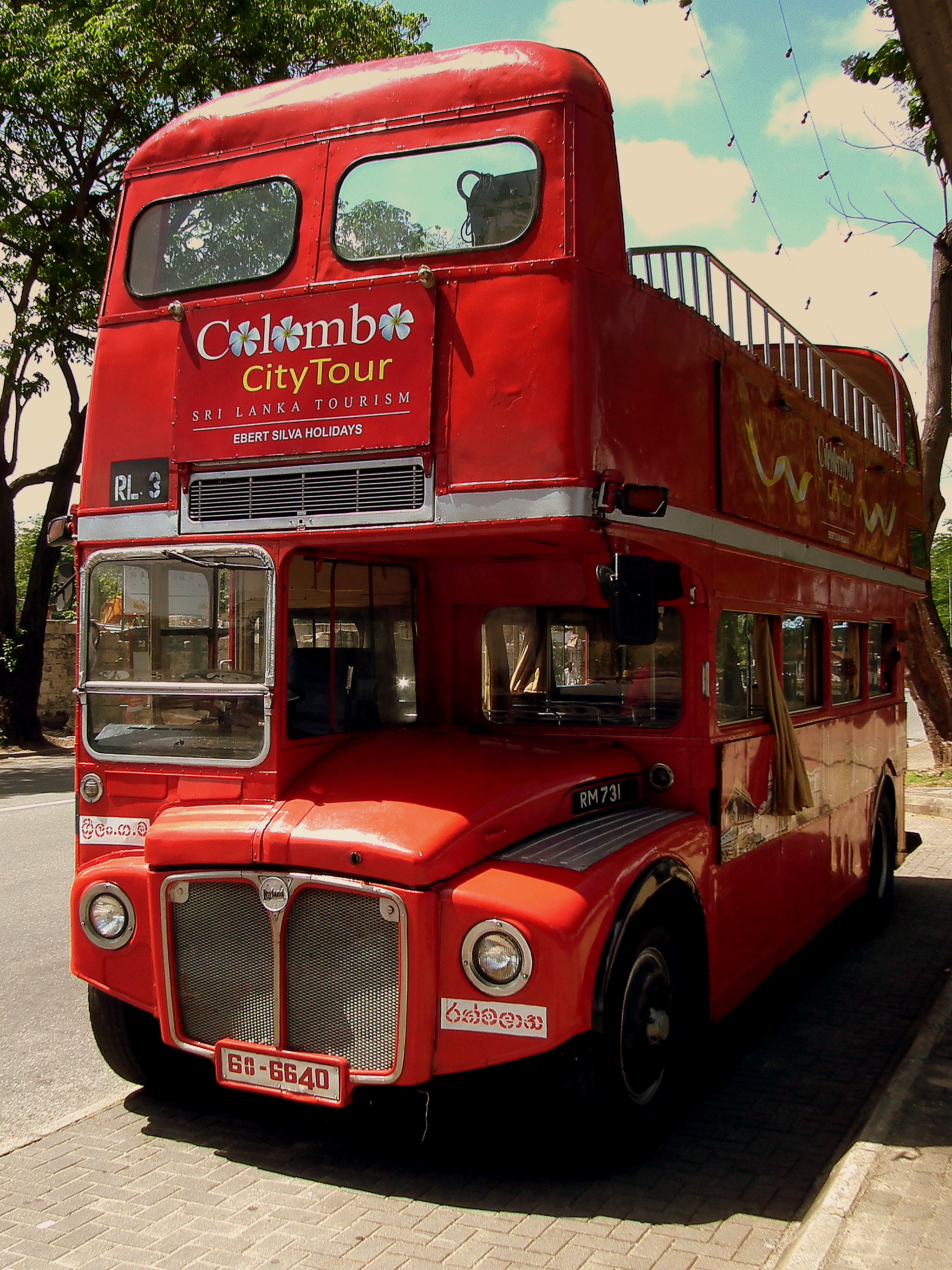 Ex-London Transport Routemaster bus RM731, delivered in April 1961, registered WLT 731. Exported to Sri Lanka in 1988, it was originally re-registered 60-6639, and then again to 66-6640 in 2000. It's pictured here converted to open top and working for the Colombo City Tour.